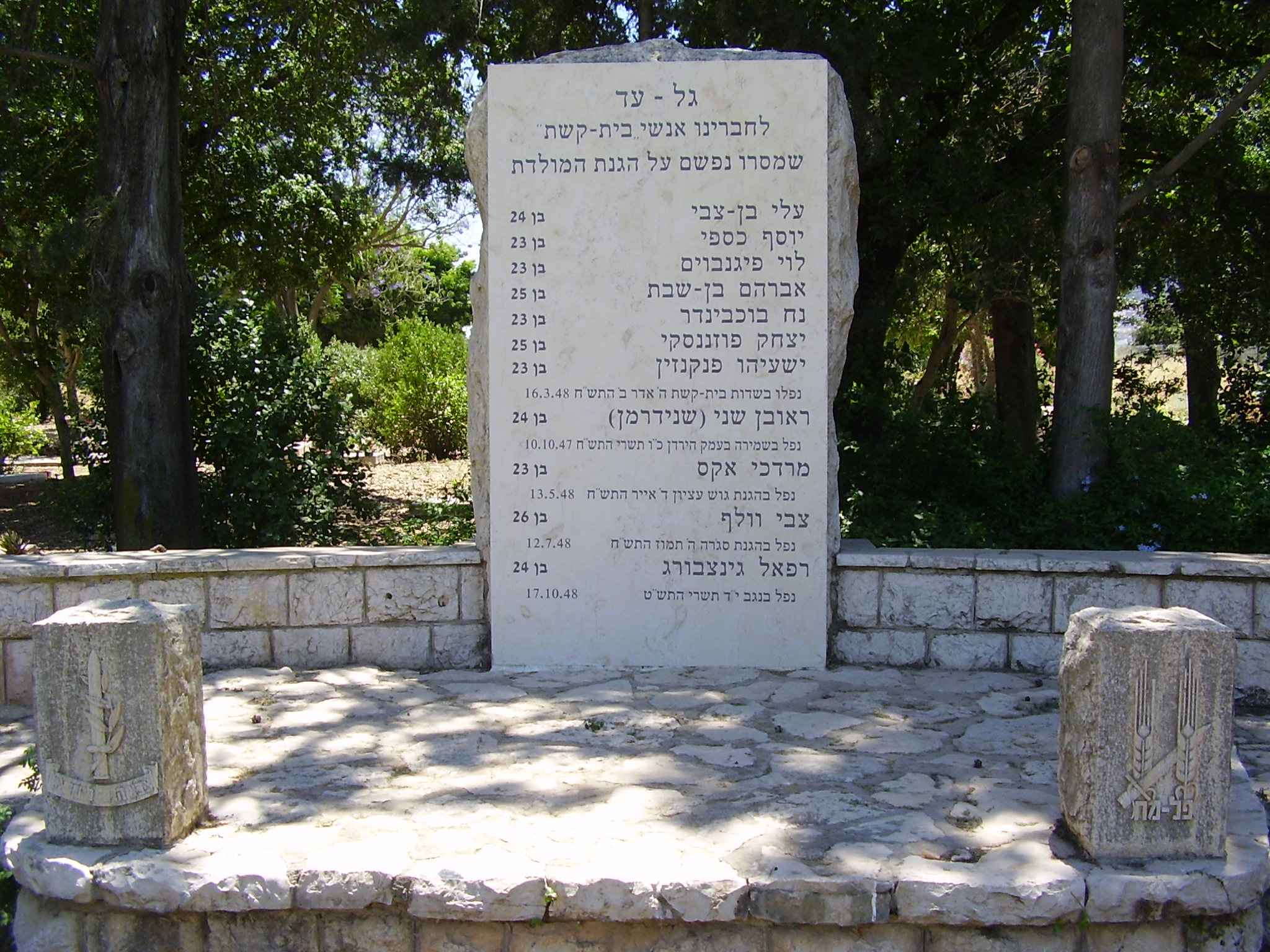 war memorial in kibutz bet-keshet, israel גלעד בבית הקברות בבית קשת לחברי הקיבוץ שנפלו במלחמת העצמאות